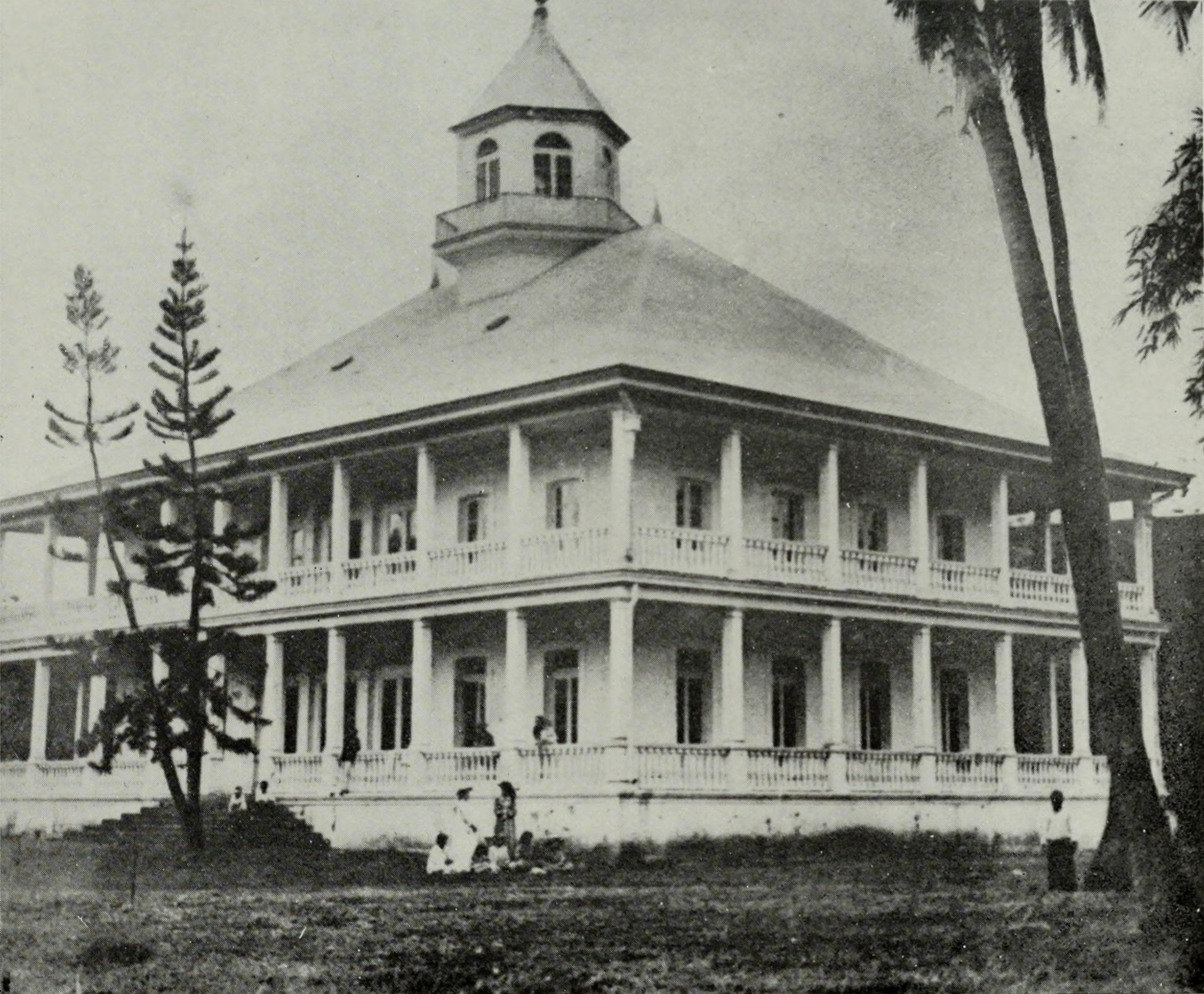 The "Aorai" or Royal Palace, Papeete.